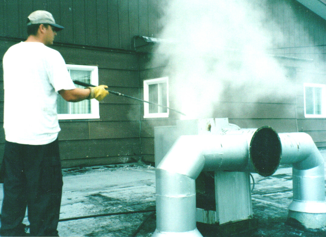 Kitchen exhaust cleaning, Capreol, Ontario, Rooftop fan.